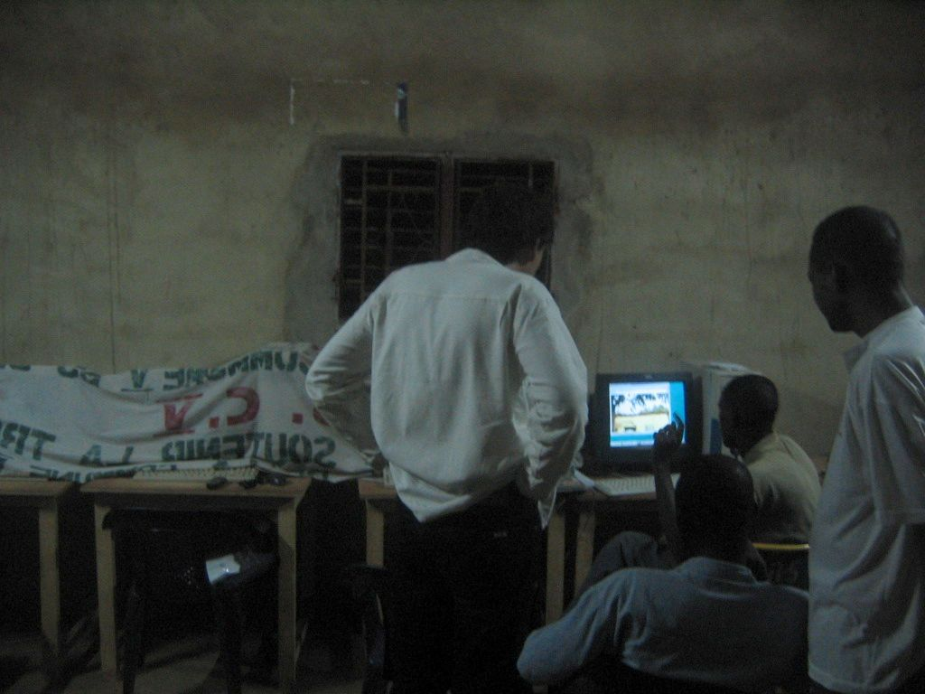 A community centre in Sabalibugu, Bamako, Mali, equipped with 10 computers by Frederic Renet, who is also in the picture, together with inhabitants of Sabalibugu. Taken by Guaka